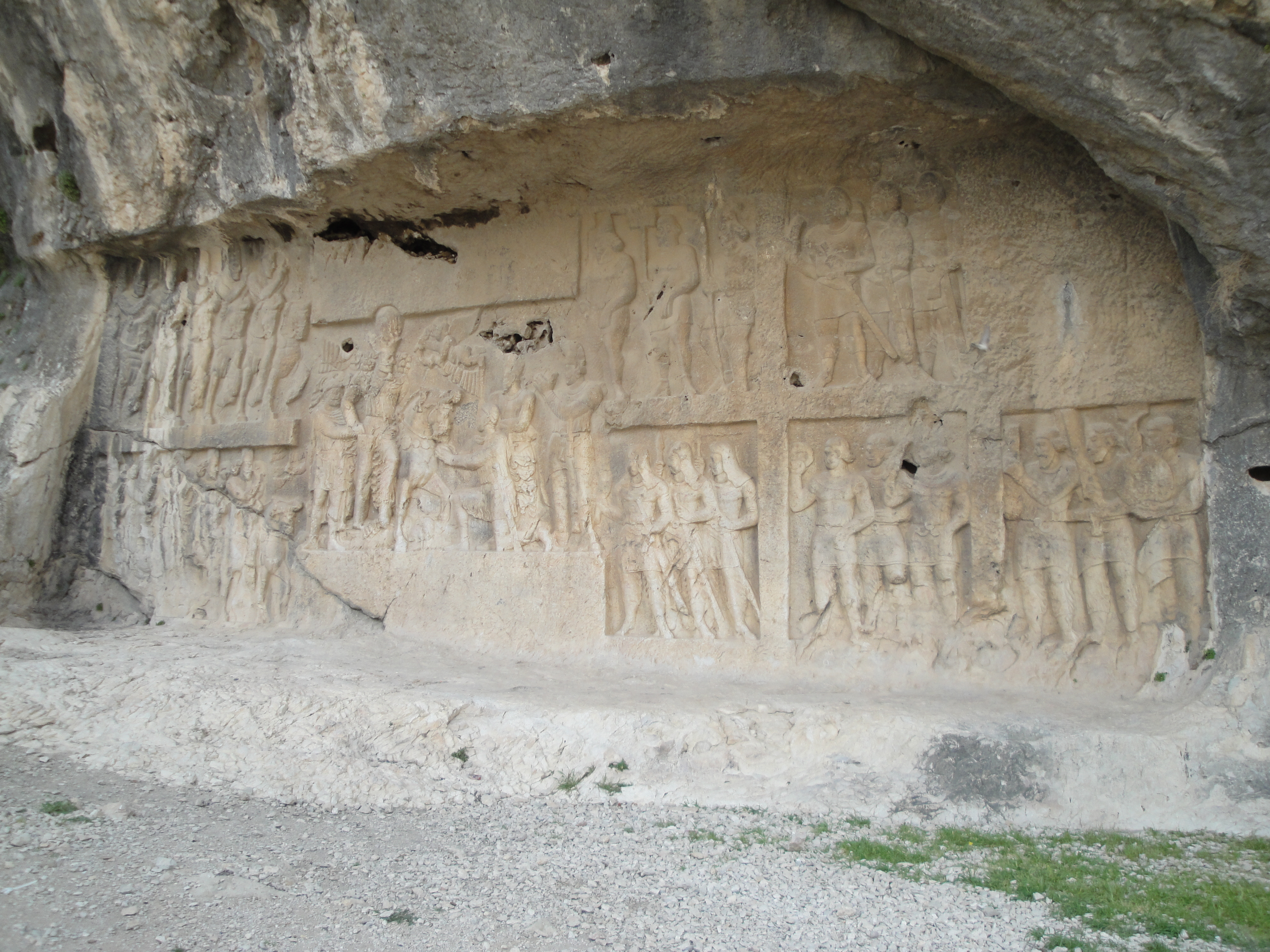 shapur I victory - bishapur